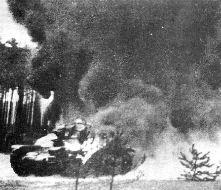 German tank, possibly Mark III, hit by Greek artilerry fire near the Metaxas line, April 1941 - Comment: this looks nothing like the Mk III, it is more likely a French tank, perhaps a Renault R35